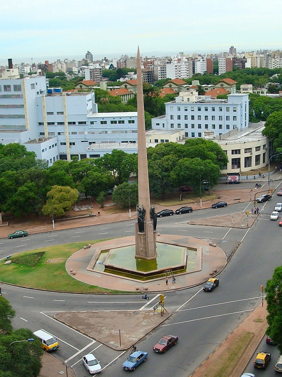 El Obelisco de Montevideo, Uruguay. Detrás se aprecia el Hospital Pereira Rossell; a la derecha, los consultorios externos, obra del Arq. Carlos A. Surraco.